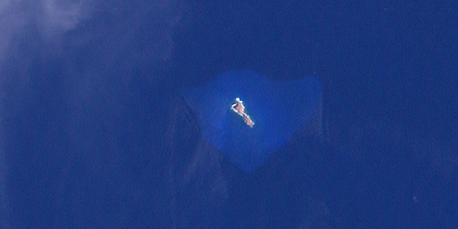 Landsat Satellite image of Fatutaka, easternmost of Solomon Islands, Pacific Ocean